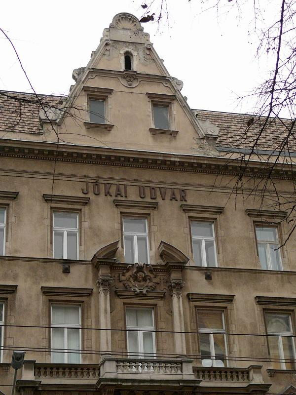 The Erzsébet Boulevard in Budapest